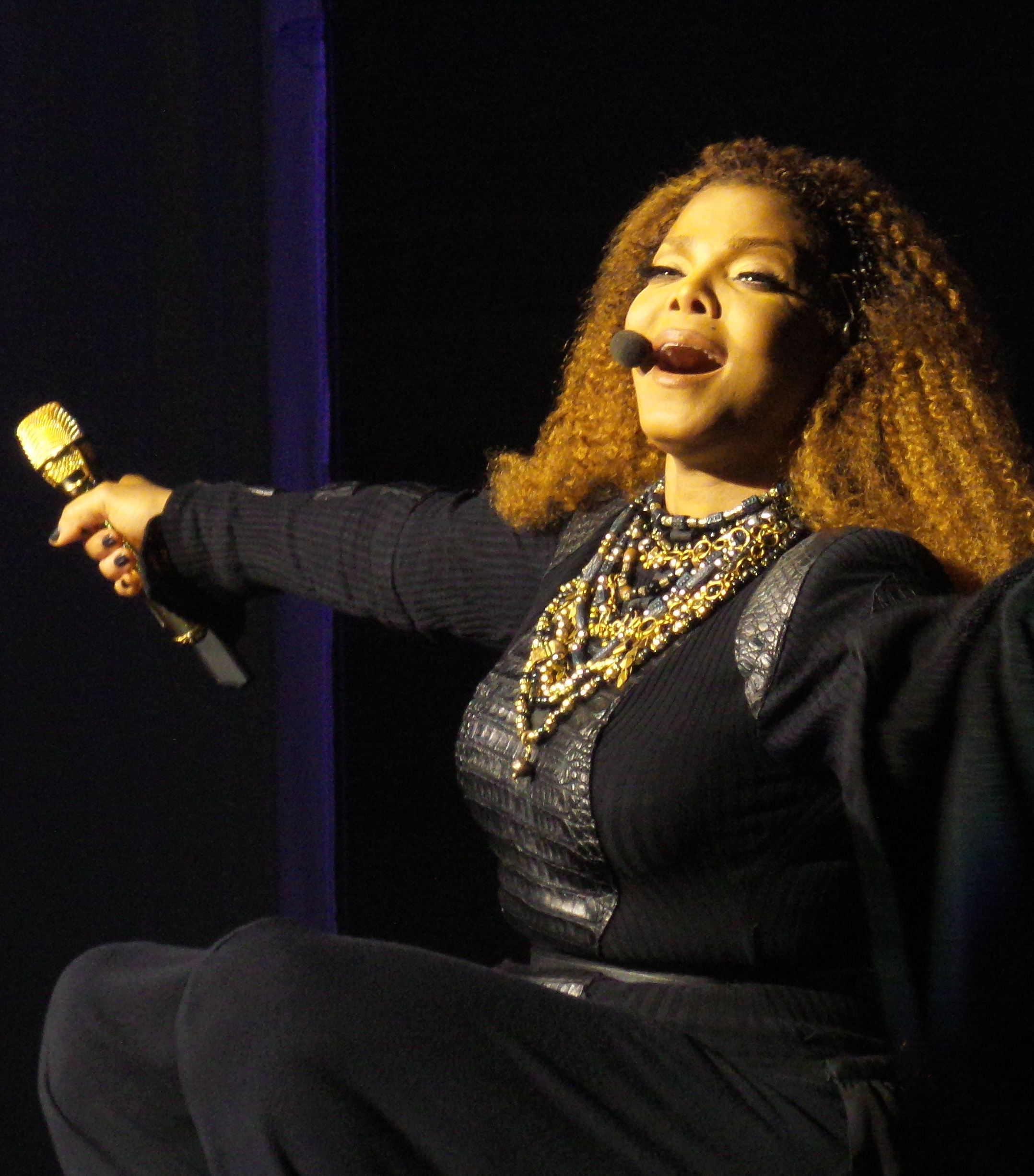 Janet Jackson Unbreakable Tour, Honolulu, Hawaii 2015